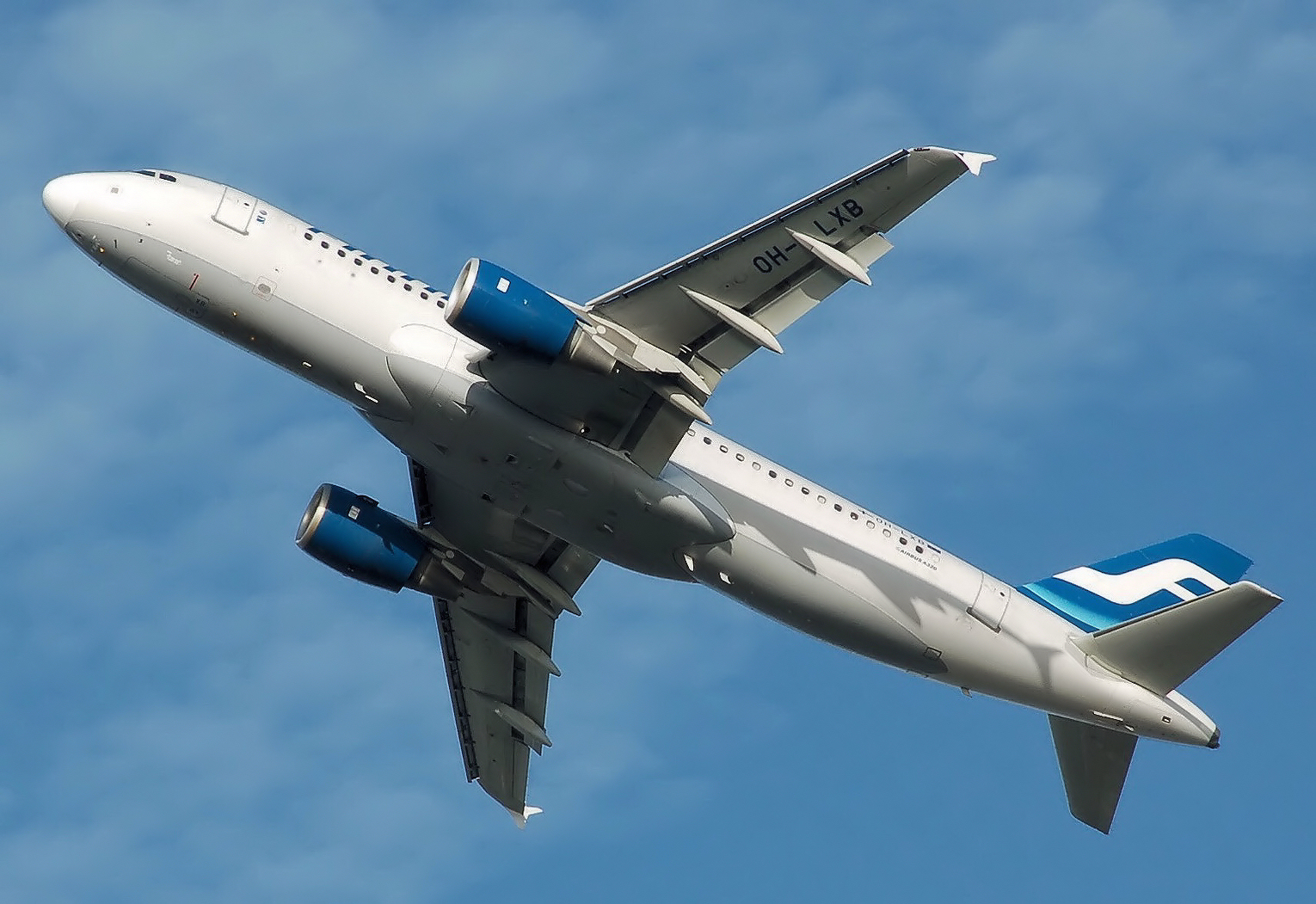 Finnair Airbus A320 takes off at London Heathrow Airport